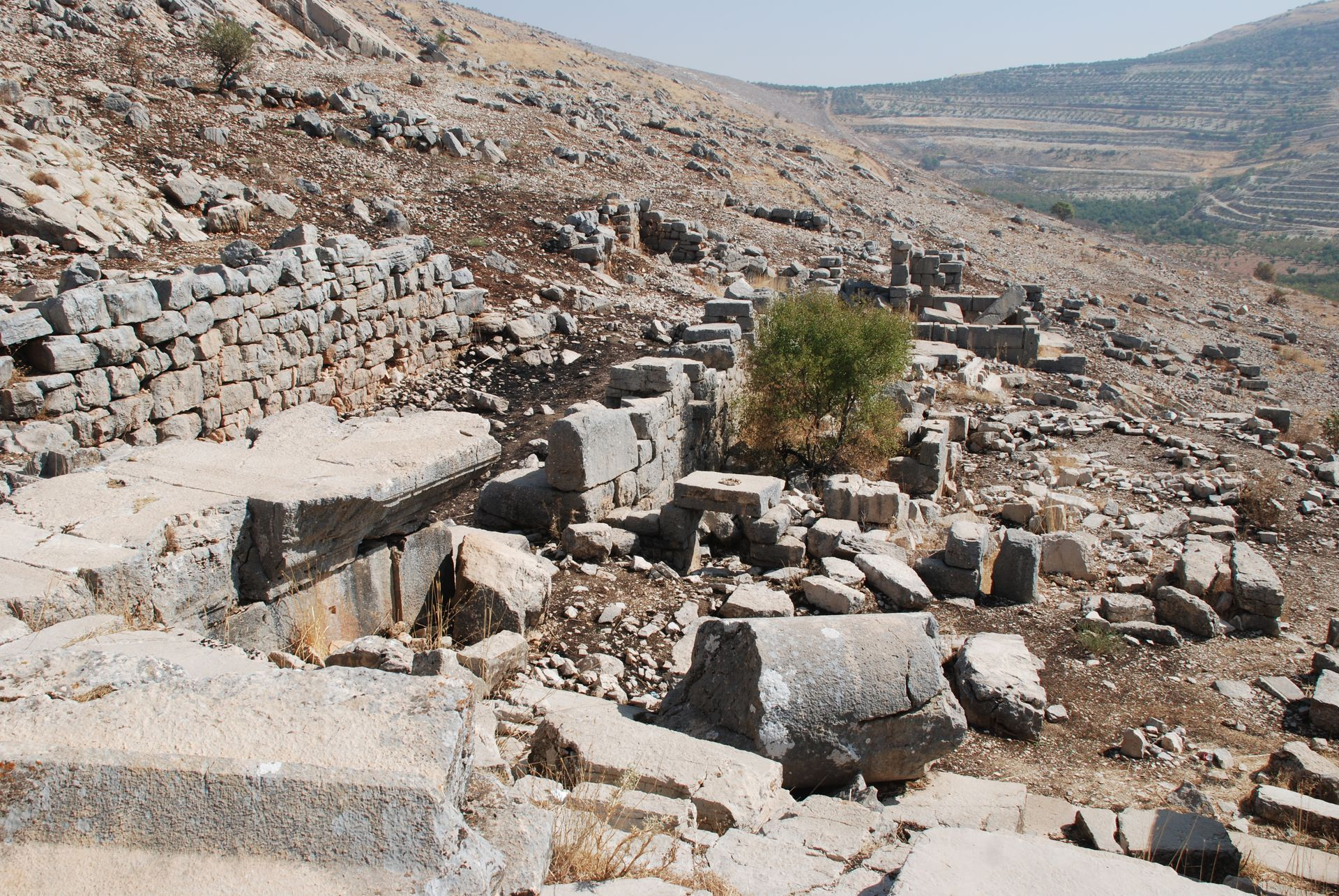 Hosn Niha, above Niha (Zahlé), Lebanon, anta temple